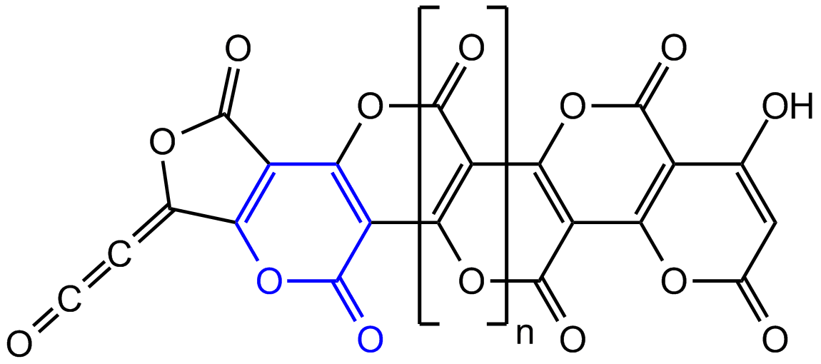 Structure of poly(carbon suboxide) with α-pyrone motif highlighted (according to Angew. Chem. Int. Ed. 2004, 43, 5843–5846)